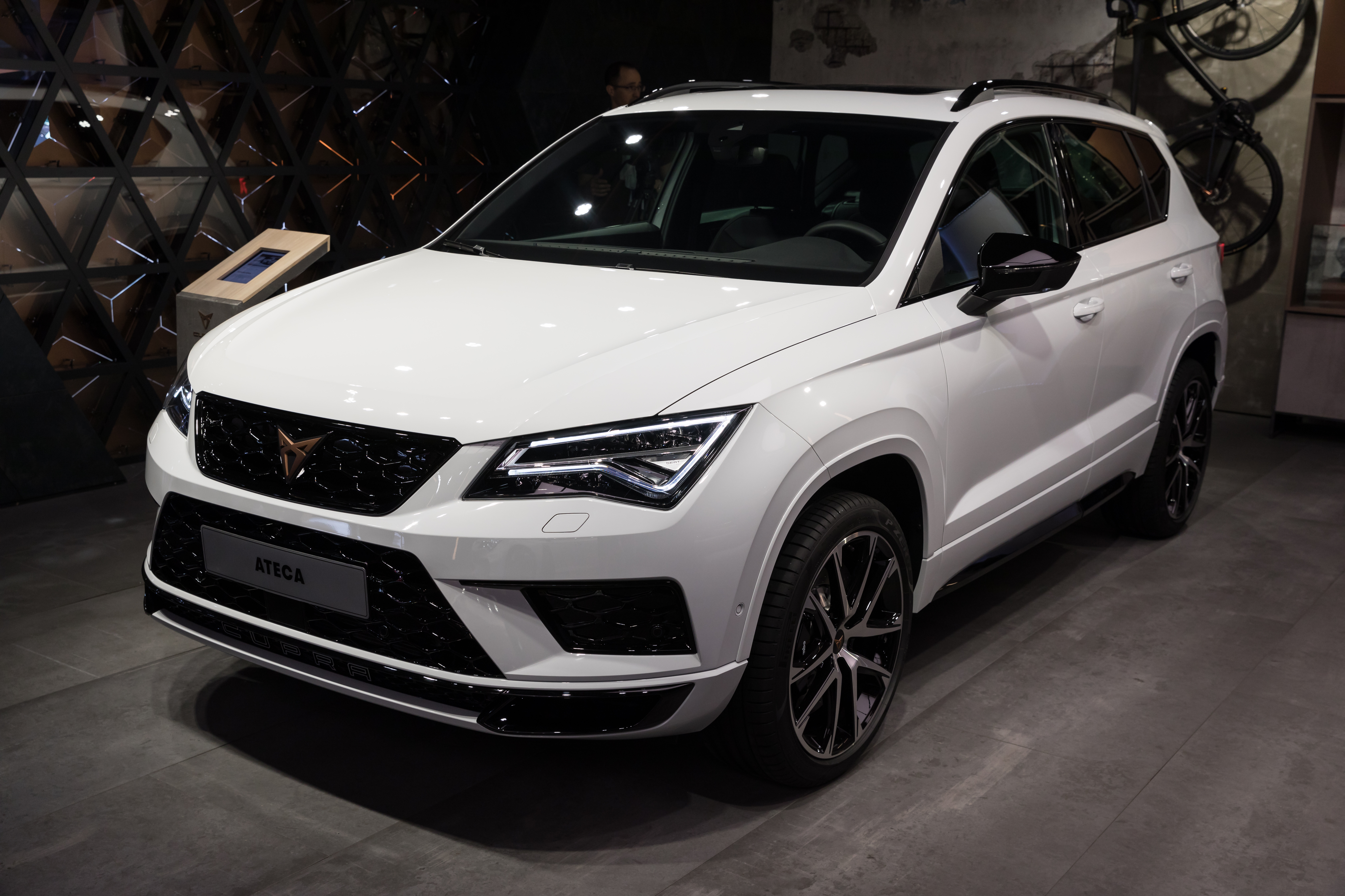 Geneva International Motor Show 2018